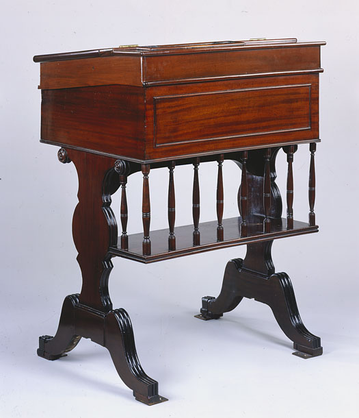 Photo of typical Senate desk.